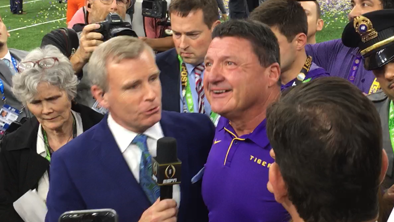 LSU head coach Ed Orgeron beams during a post-game interview with ESPN's Tom Rinaldi immediately after the 2020 College Football Playoff National Championship in the Mercedes-Benz Superdome in New Orleans.